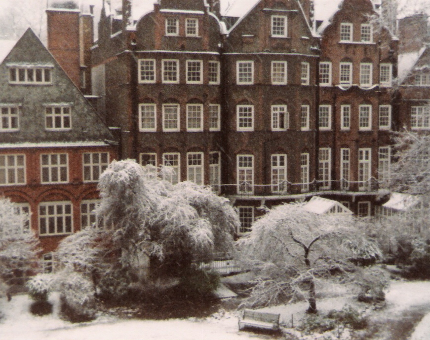 Private photo of part of houses in Collingham Gardens, Earls Court, c1980. No copyrights.